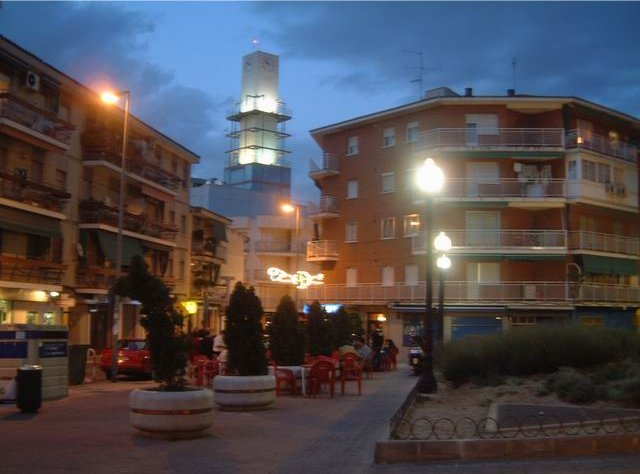 Outside restaurant in Getafe, (Madrid), Spain Author: Miguel303xm Date: June 12th, 2005